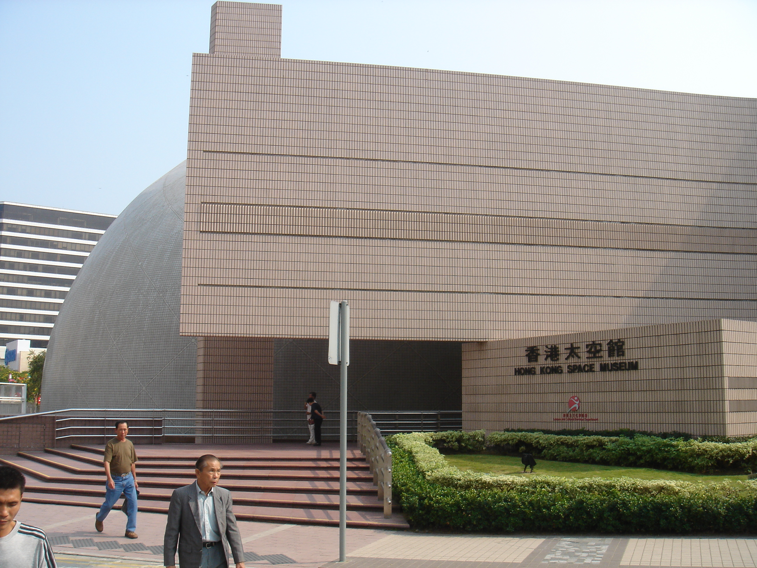 Entrance of Hong Kong Space Museum, Tsim Sha Tsui, Hong Kong.